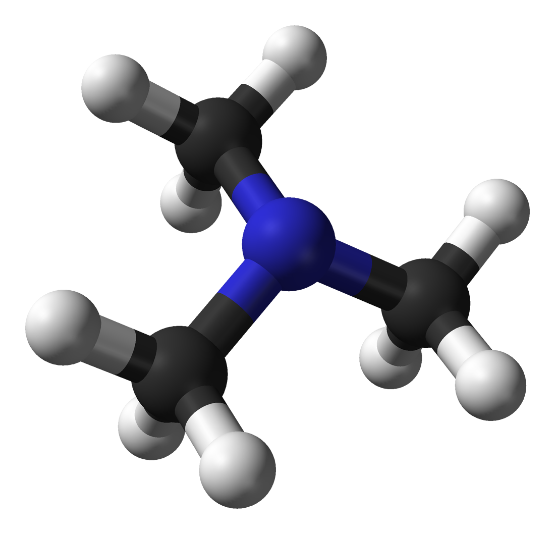 Ball-and-stick model of the trimethylamine molecule, N(CH3)3. Microwave (rotational) spectroscopy data from James E. Wollrab and Victor W. Laurie (August 1969). "Structure and Conformation of Trimethylamine". J. Chem. Phys. 51: 1580-1583.